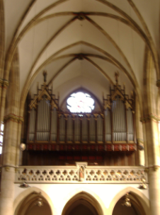 Organ of Lazarist's parish church in Vienna, built by Johann M. Kauffmann.